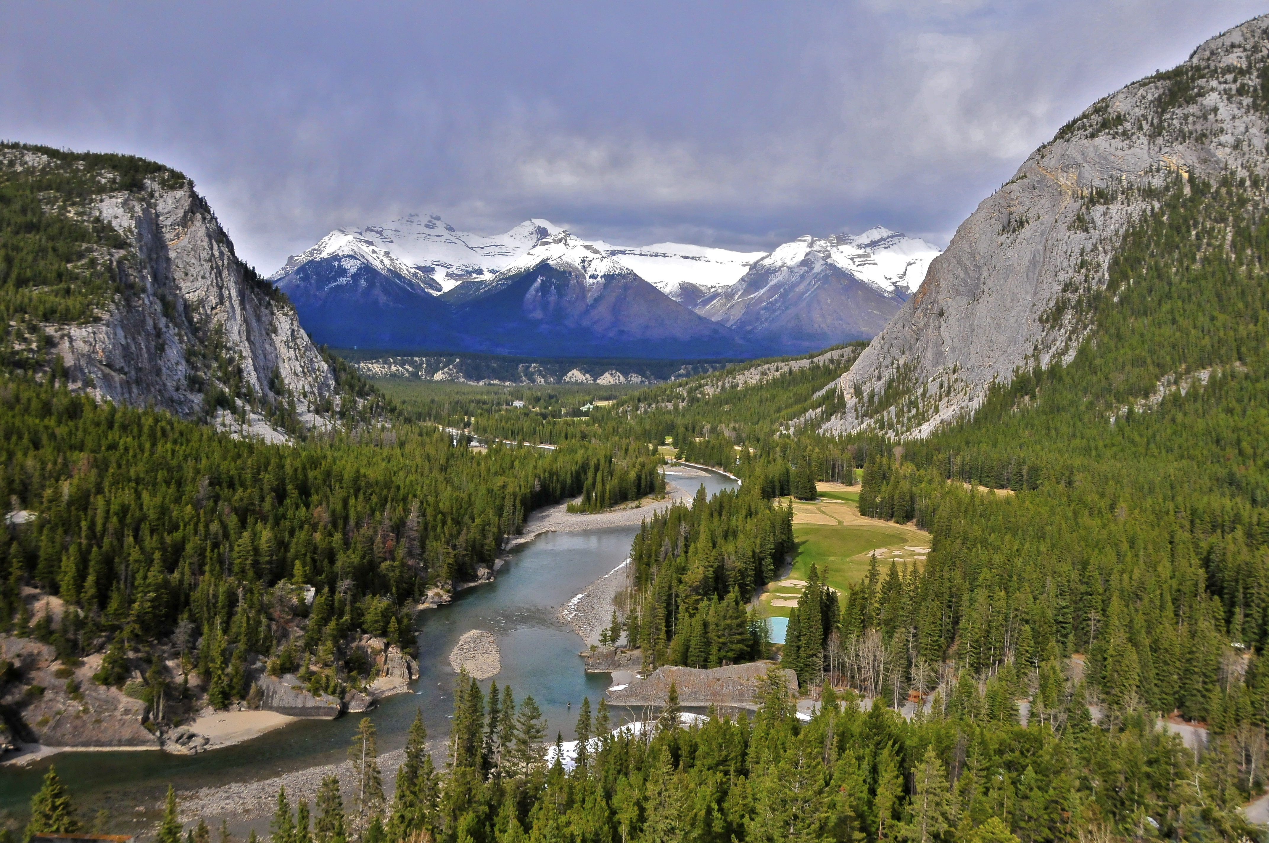 Banff golf course and the Bow River